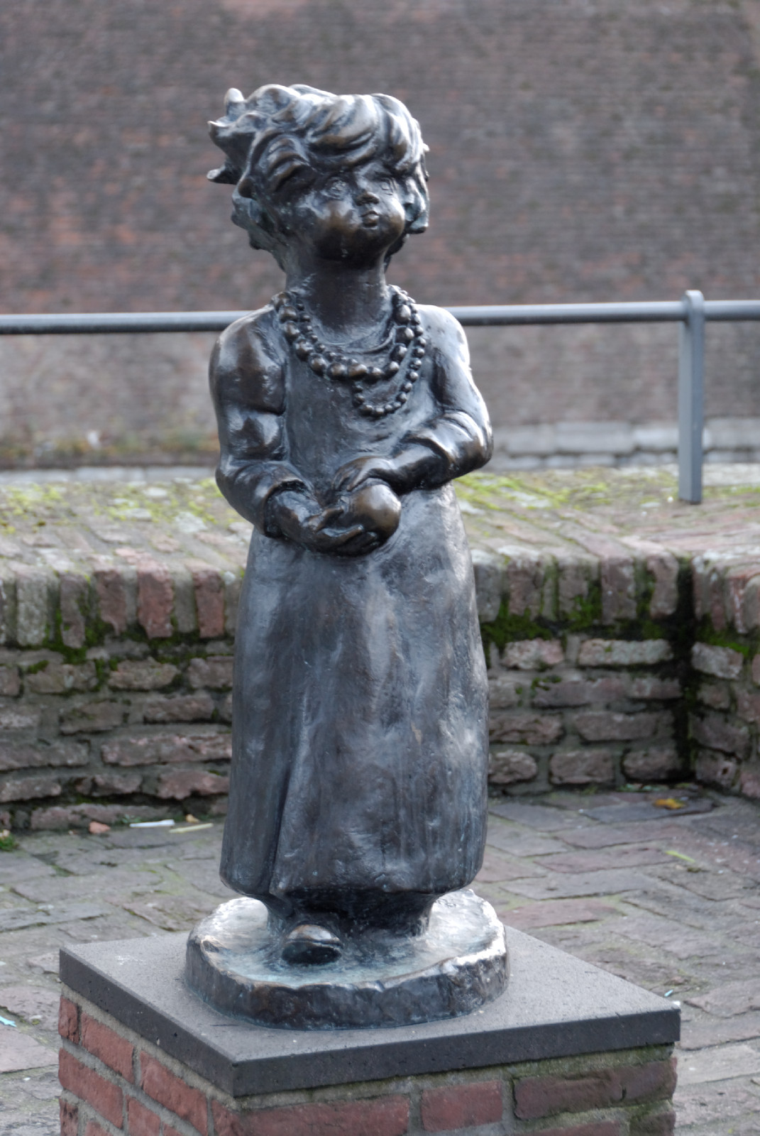 Statue "Ehra oder Kind mit Ball" in Düsseldorf-Carlstadt, Germany